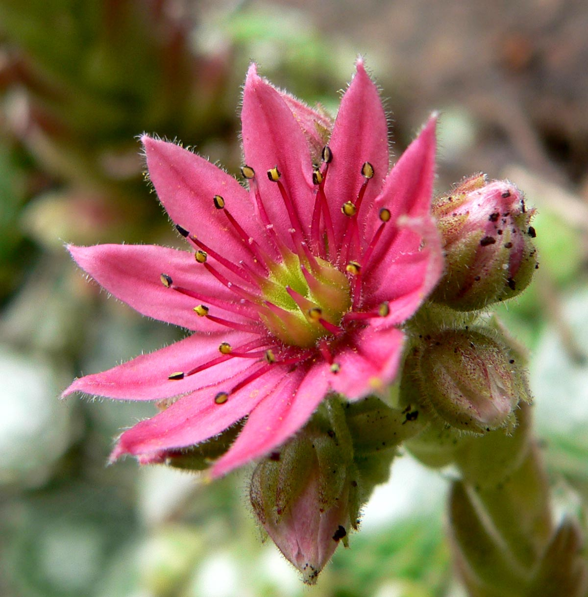 Photo of Sempervivum arachnoideum flower at the UBC Botanical Garden in Vancouver